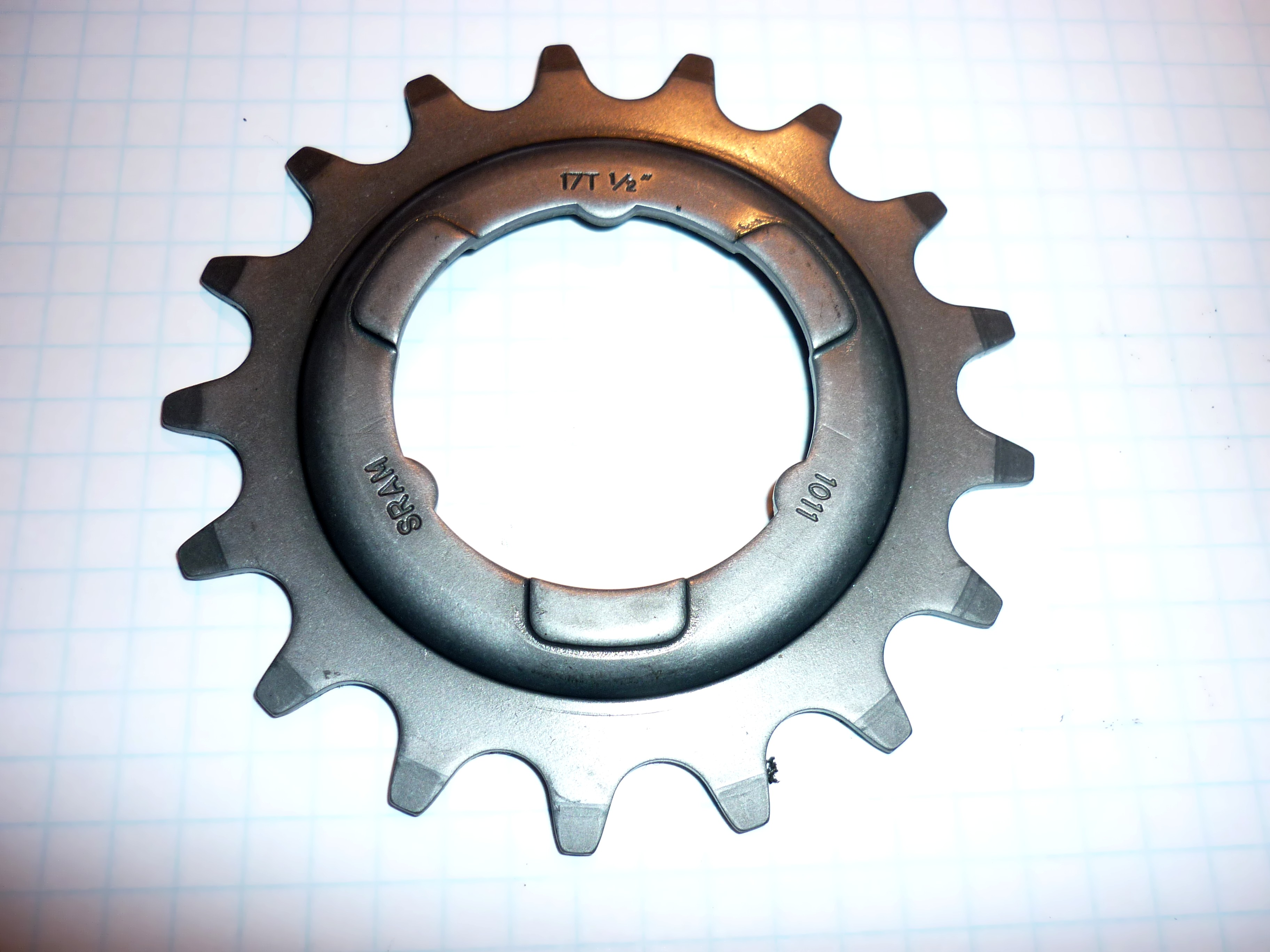 Back side (facing wheel) of the unused rear bicycle chain gear in file kædetandhjul.